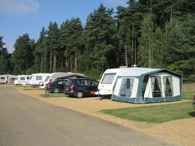 The Caravan Club Site, The Sandringham estate. This Club Caravan site is hidden from view amongst the trees, to the north of the B1439